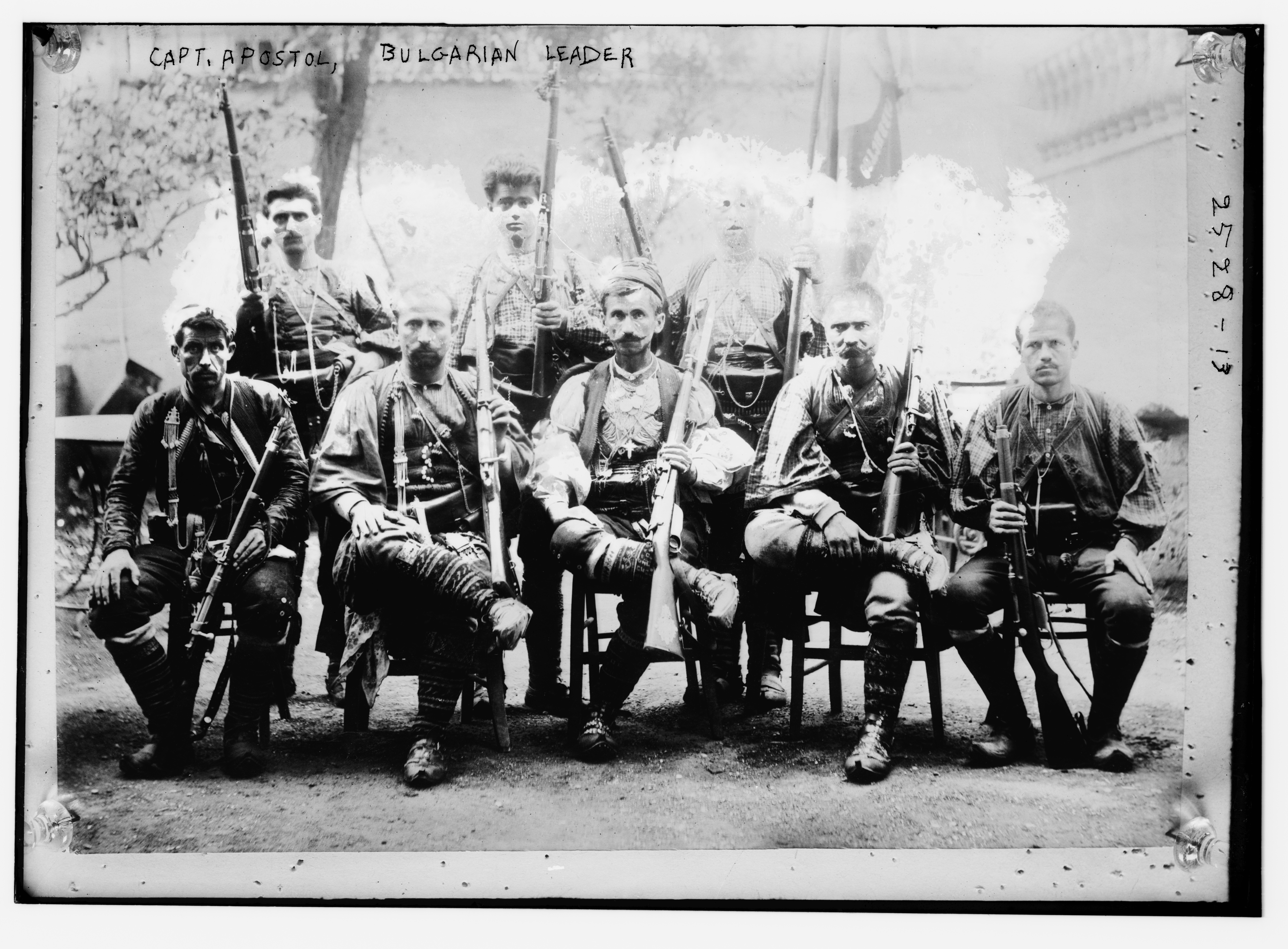 Cheta of Apostol Petkov Terziev